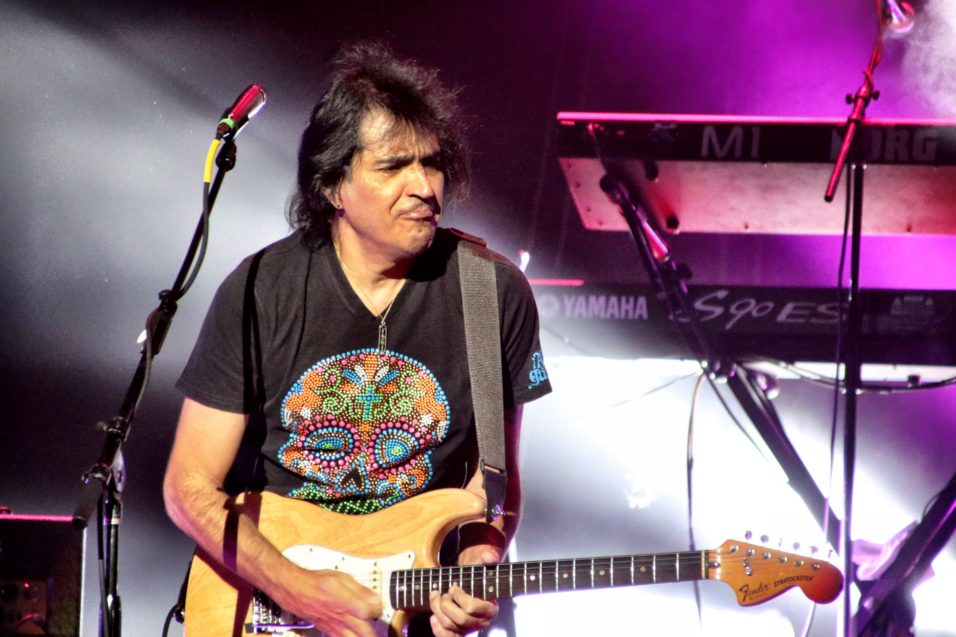 Enanitos Verdes & Hombres G ::: Paramount Theater ::: 06.12.19